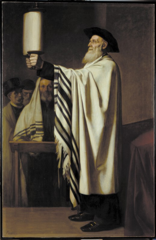 "The Presentation of The Torah", Edouard Moyse (1860) - Musée d'art et d'histoire du Judaïsme